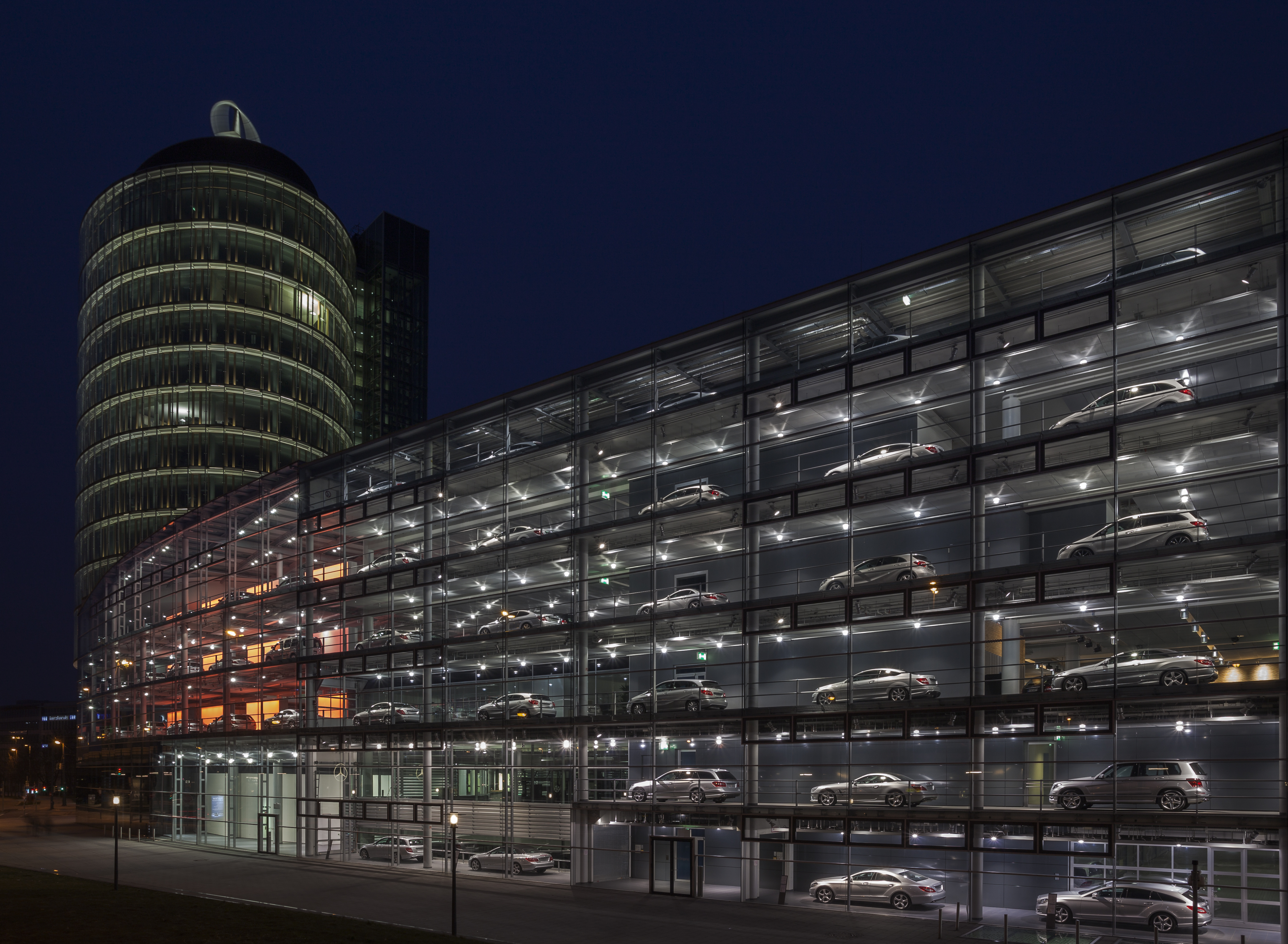 Mercedes-Benz dealership, Munich, Germany